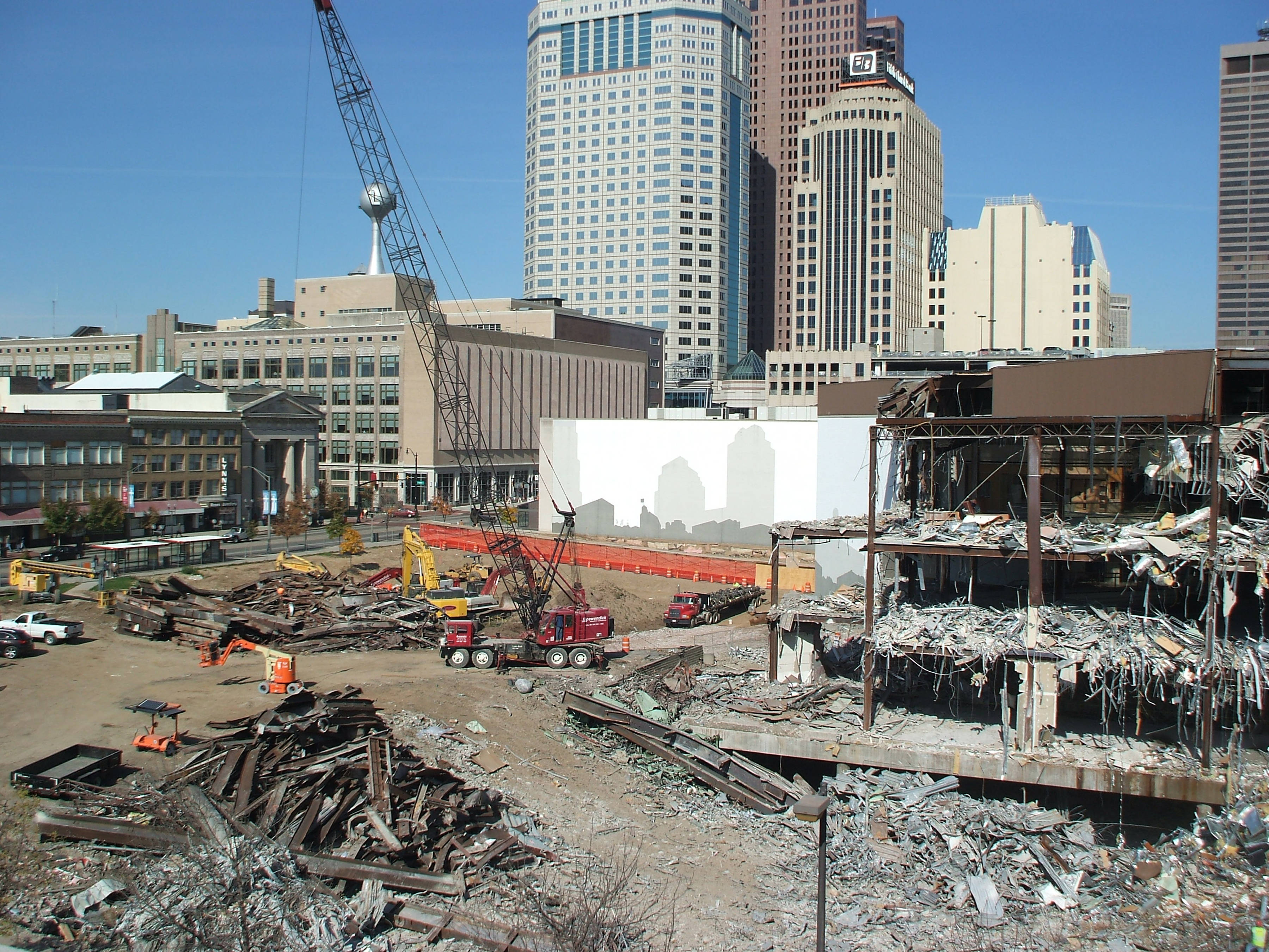 "Views of the City Center Mall in downtown Columbus, Ohio, during its demolition. The mall opened on August 18, 1989, and closed on March 5, 2009. Demolition began on October 1, 2009, by S.G. Loewendick & Sons, Inc., of Grove City."